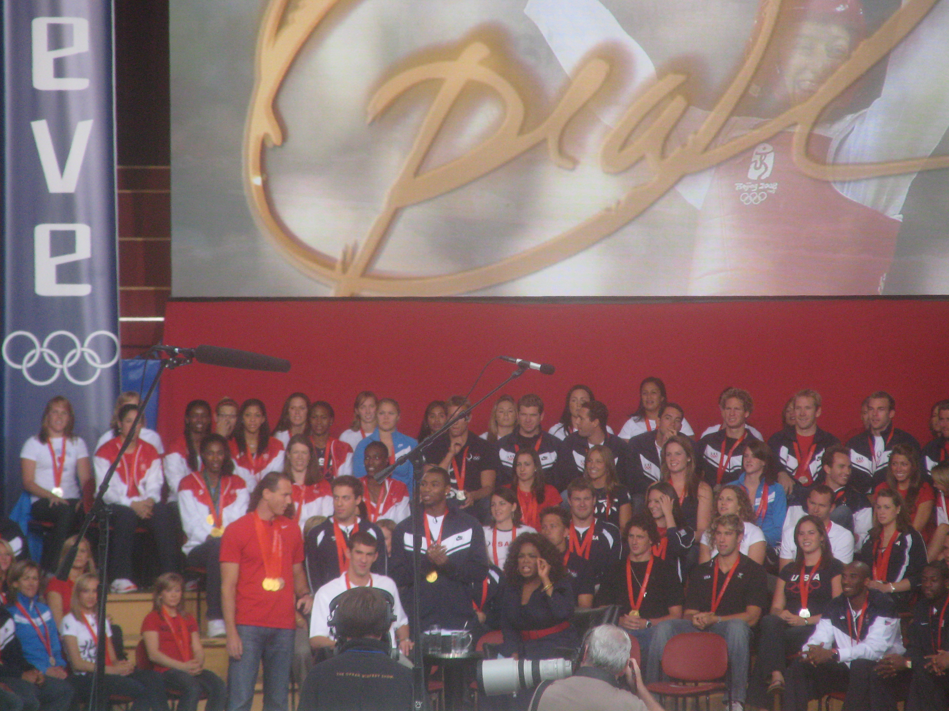 Gold Medal United States Beijing Olympics Men's 4 x 100 metre freestyle relay team at September 3, 2008 taping of season-opening September 8, 2008 Oprah Winfrey Show at the Jay Pritzker Pavilion.